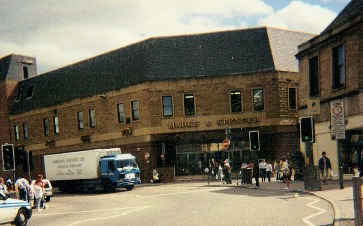 The M and S store in Inverness in 1998. I took the picture my self.